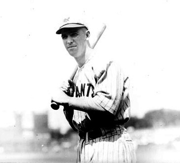 Informal three-quarter length portrait of baseball player Travis Jackson, of the National League's New York Giants, holding a baseball bat, standing on the field at Weeghman Field (later renamed Wrigley Field), located at 1060 West Addison Street and bounded by West Waveland Avenue, North Seminary Avenue, North Clark Street, and North Sheffield Avenue in the Lake View community area of Chicago.